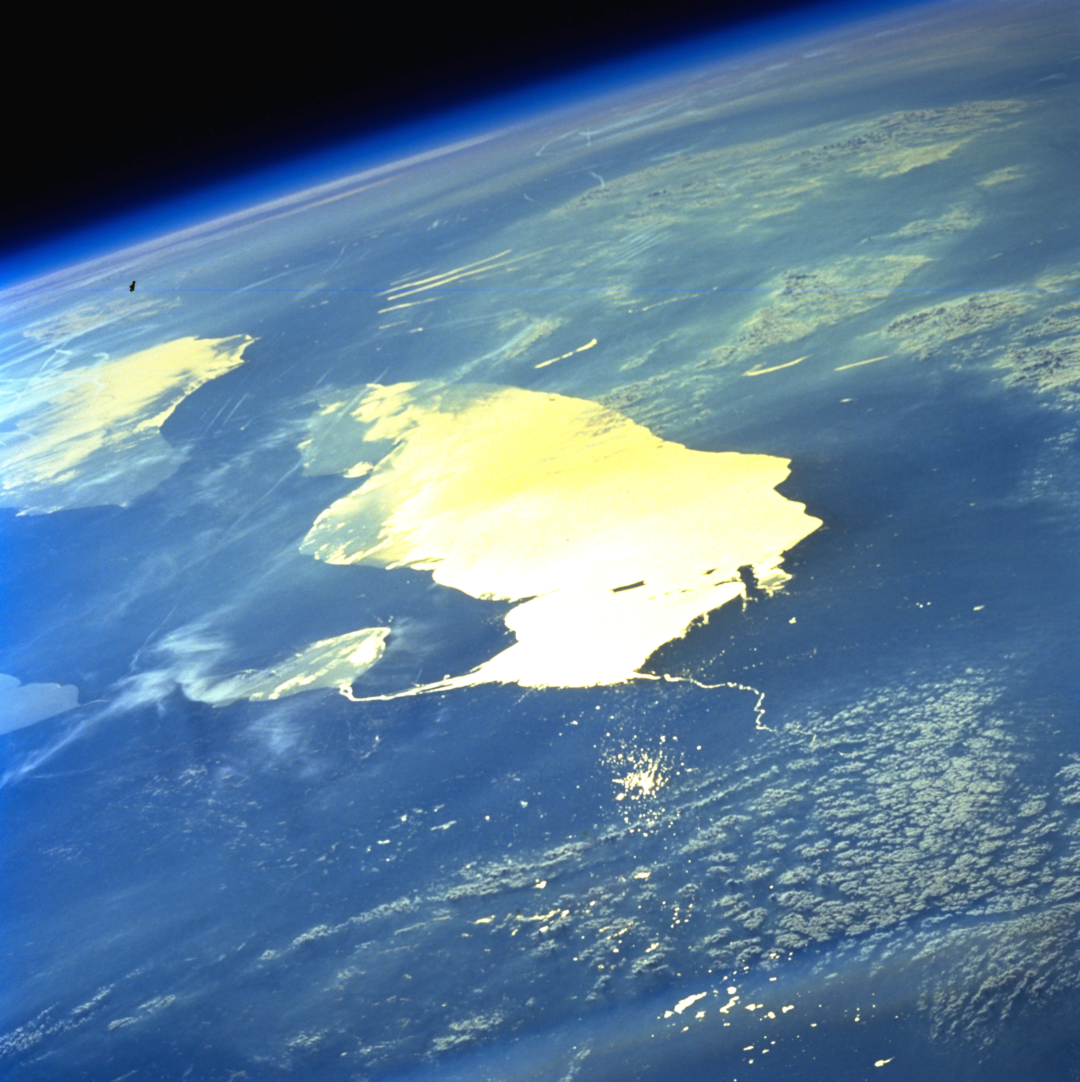 Lake Erie from space